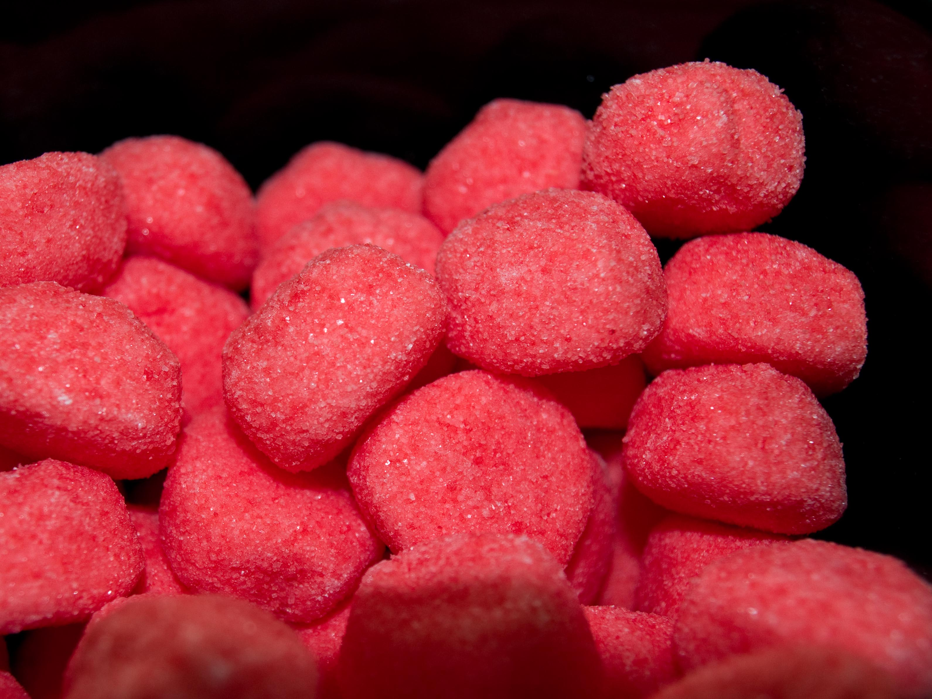 The Fraise Tagada (Tagada Strawberry) is a candy invented in 1969 by the Haribo Society.